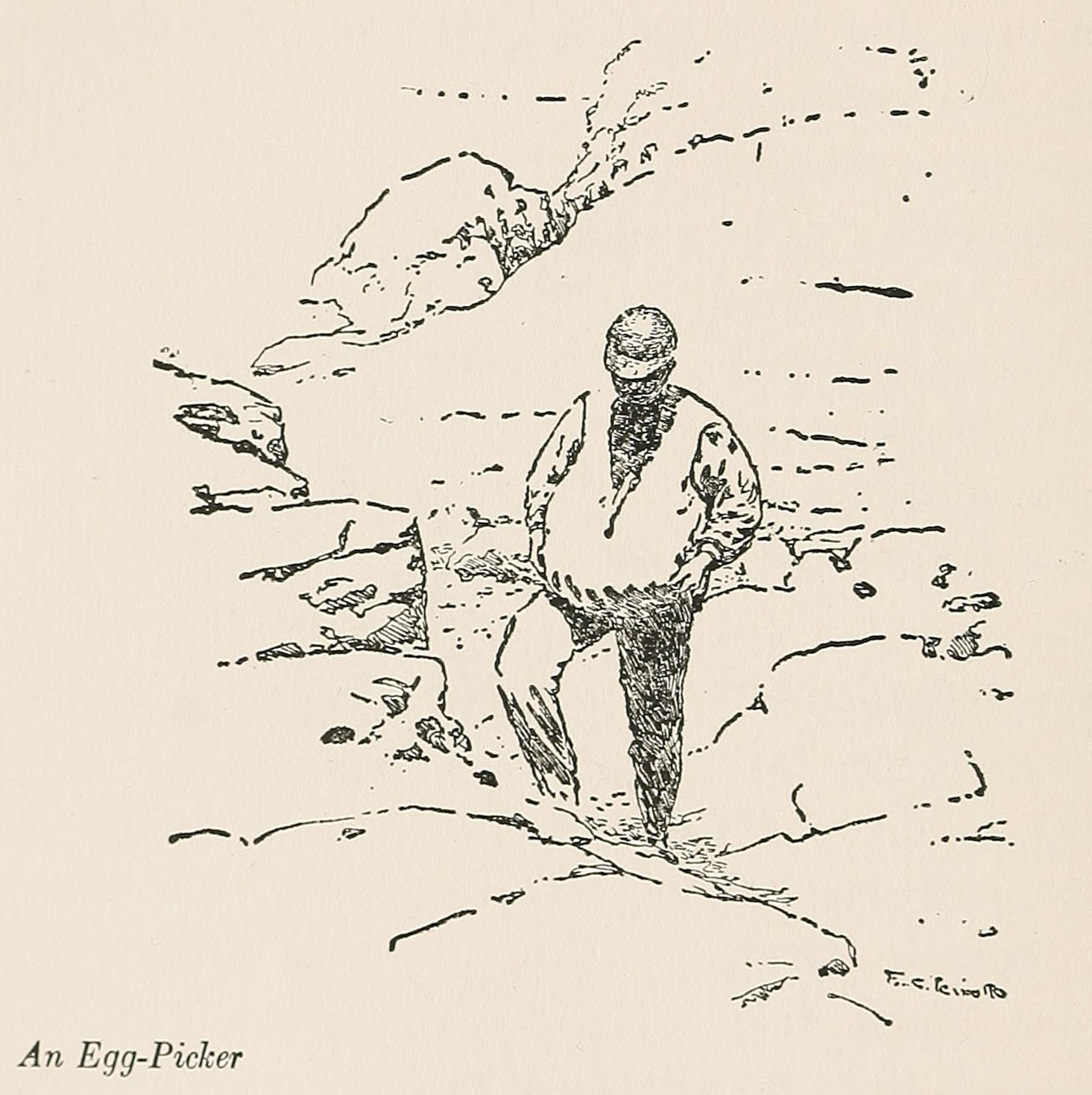 Egg picker on the Farallon Islands by Ernest C. Peixotto (1869-1940) Taken from Romantic California by E Peixotto, Published 1910.